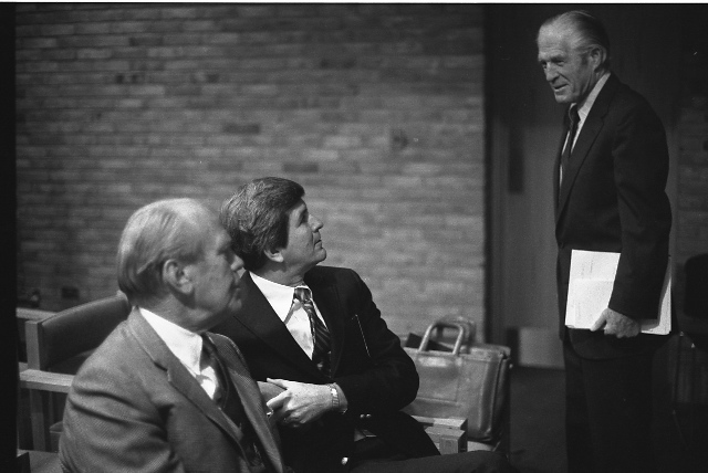 Caption (from the University of Michigan): President Ford and David Mathews, former Secretary of HEW, meet with former Michigan Governor George Romney following a session of the Fourth Presidential Library Conference on the Public and Public Policy, held at the Gerald R. Ford Library, March 18-19, 1986.